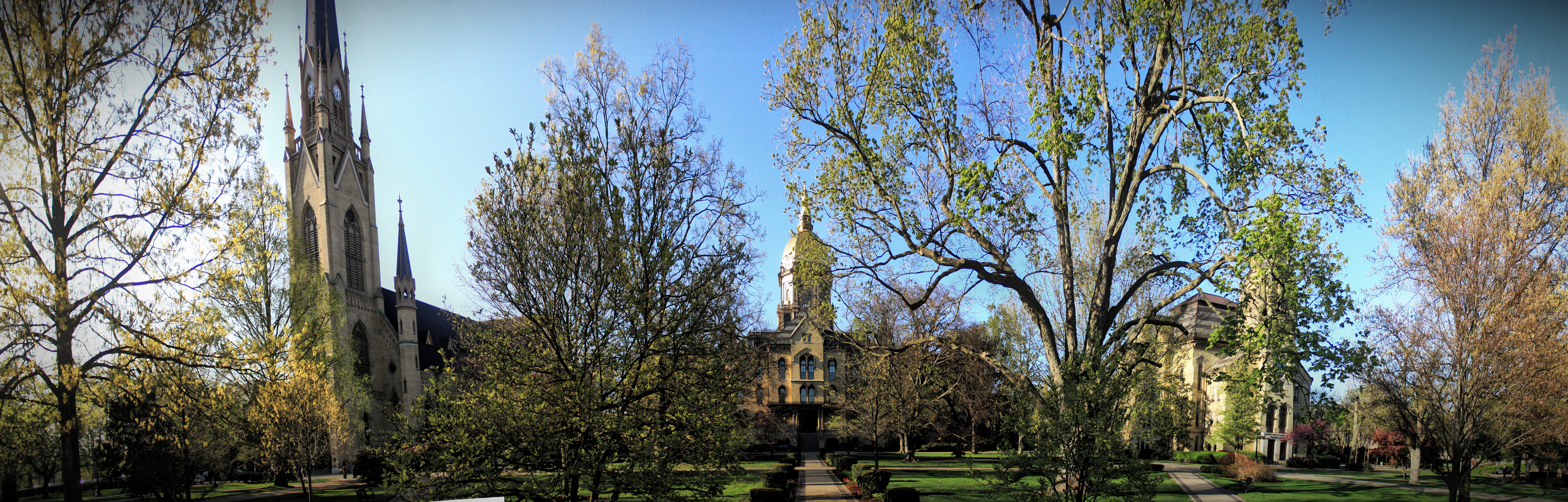 A view of the Basilica of the Sacred Heart (left), the Main Building (center), and Washington Hall (right) at the University of Notre Dame.